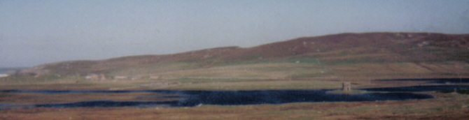 Scolpaig is a hamlet on the west coast of North Uist (Uibhist a Tuath), Outer Hebrides. It has an empty tower which was erected in the 19th century for the sole purpose of providing employment. Scolpaig Tower is situated on a small island in a lake. In the extreme left of the picture, the Atlantic Ocean can be seen.